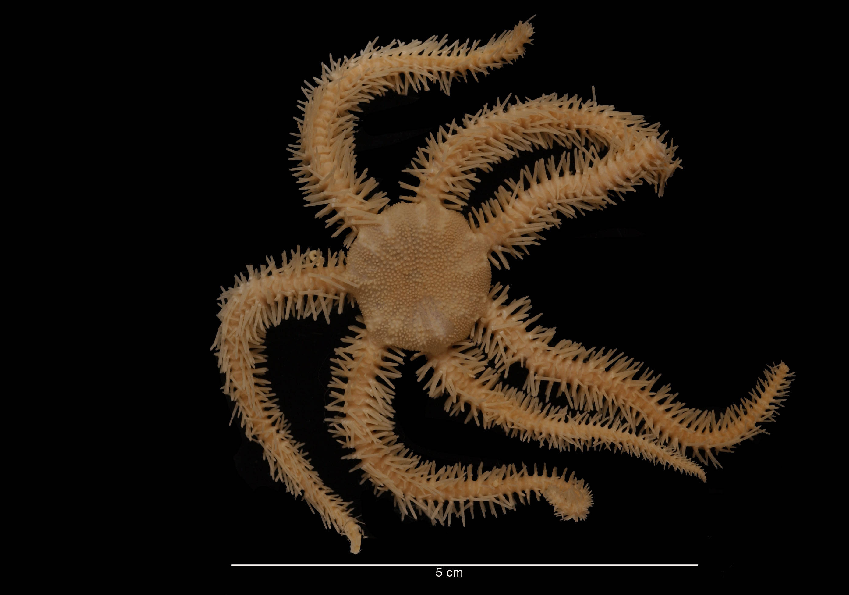 PRESERVED_SPECIMEN; Preparations: Alcohol (Ethanol); Ophiacantha vivipara Ljungman, 1871; Individual count: 11; Type status: (no data); Identified by: Koehler, R.; Event date: 18880117T00:00:00Z; Additional description: Ophiacantha vivipara Ljungman USNM 33850 dorsal view Scale : 5 cm